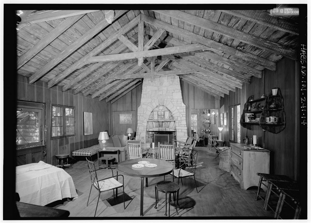 Interior of the Cypress Log House from the 1933 Chicago Worlds Fair